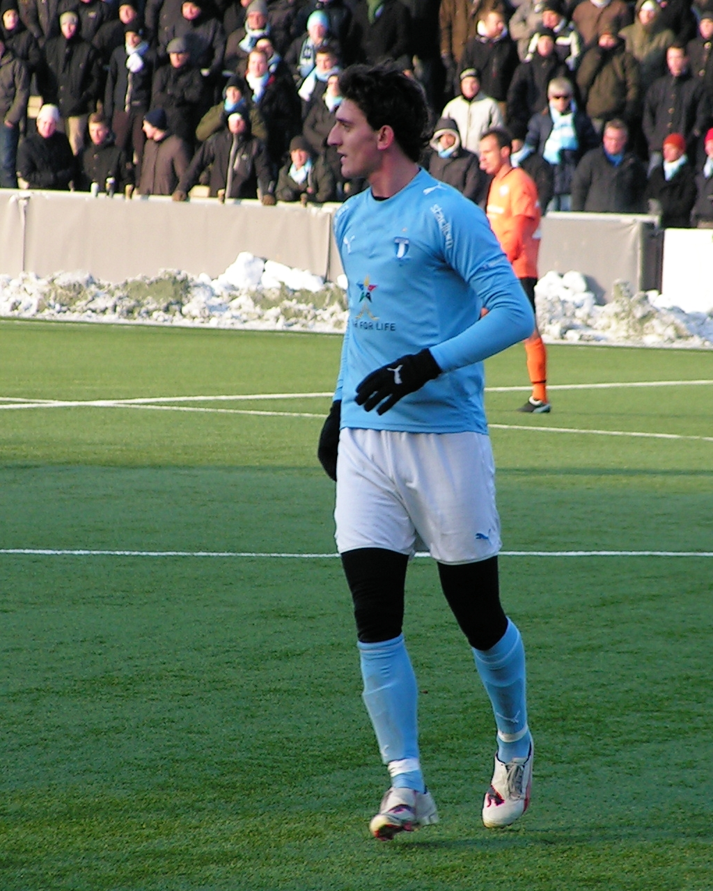 Agon Mehmeti for Malmö FF in a friendly game vs HB Köge 23 Jan 2010 at Malmö IP in Malmö, Sweden.